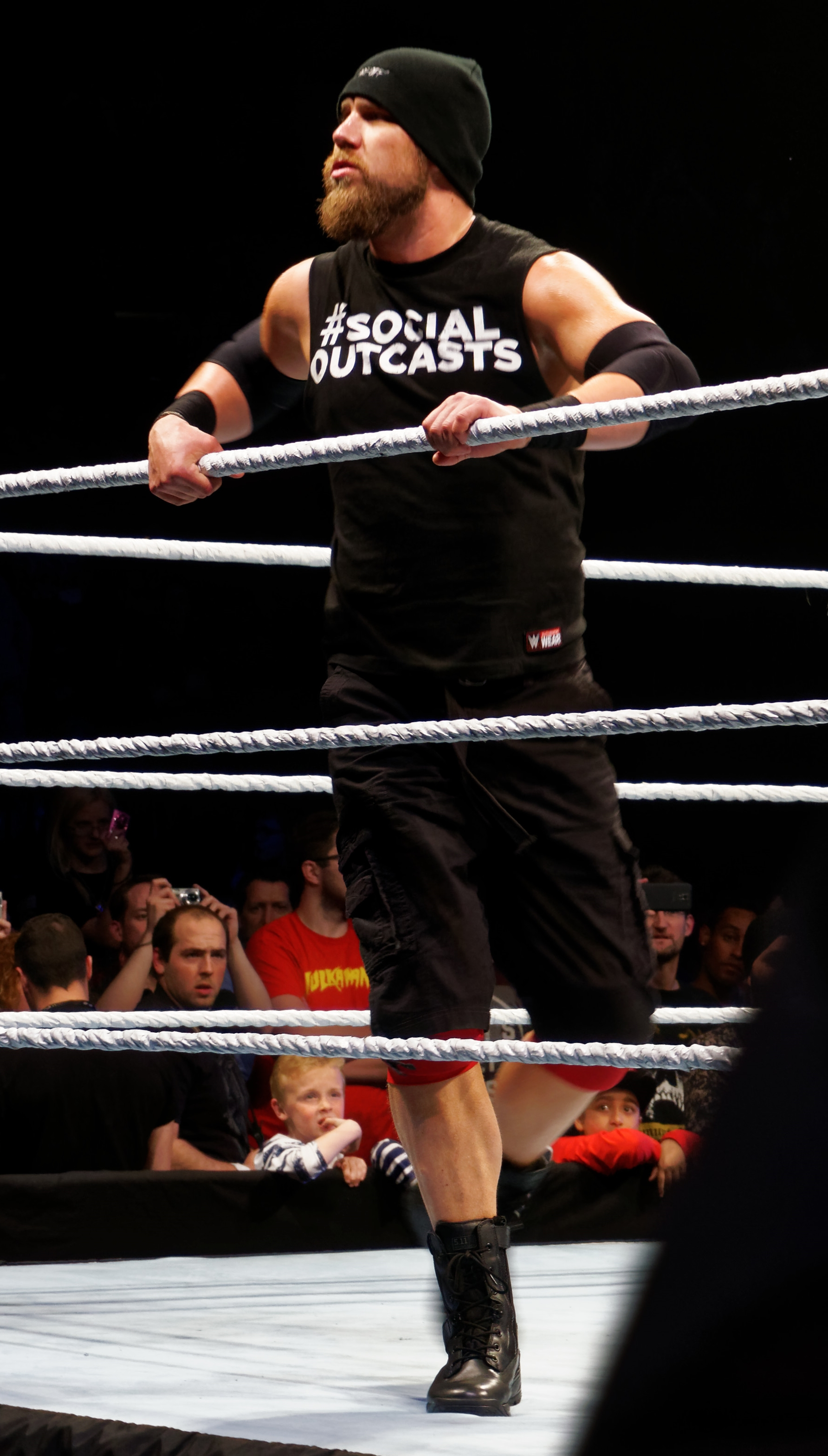 Curtis Axel in April 2016